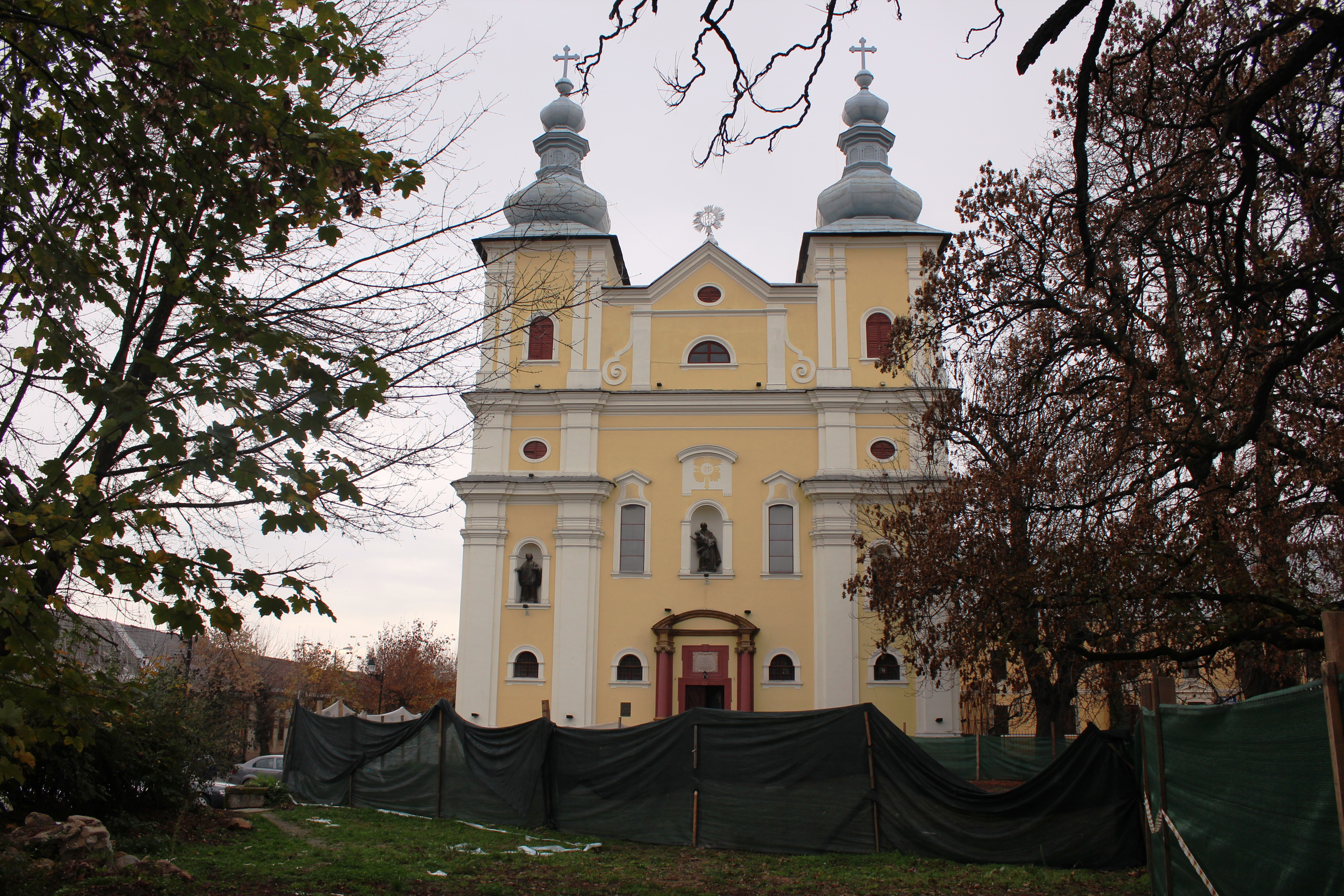 Baia Mare, Holy Trinity church